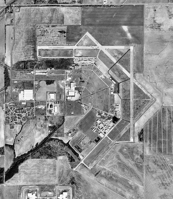 USGS digital orthophoto of Newport Municipal Airport in Newport, Jackson County, Arkansas, United States